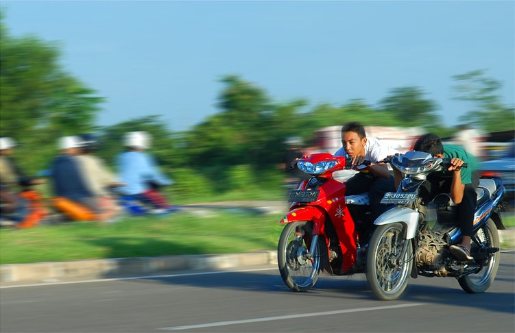 illegal street race